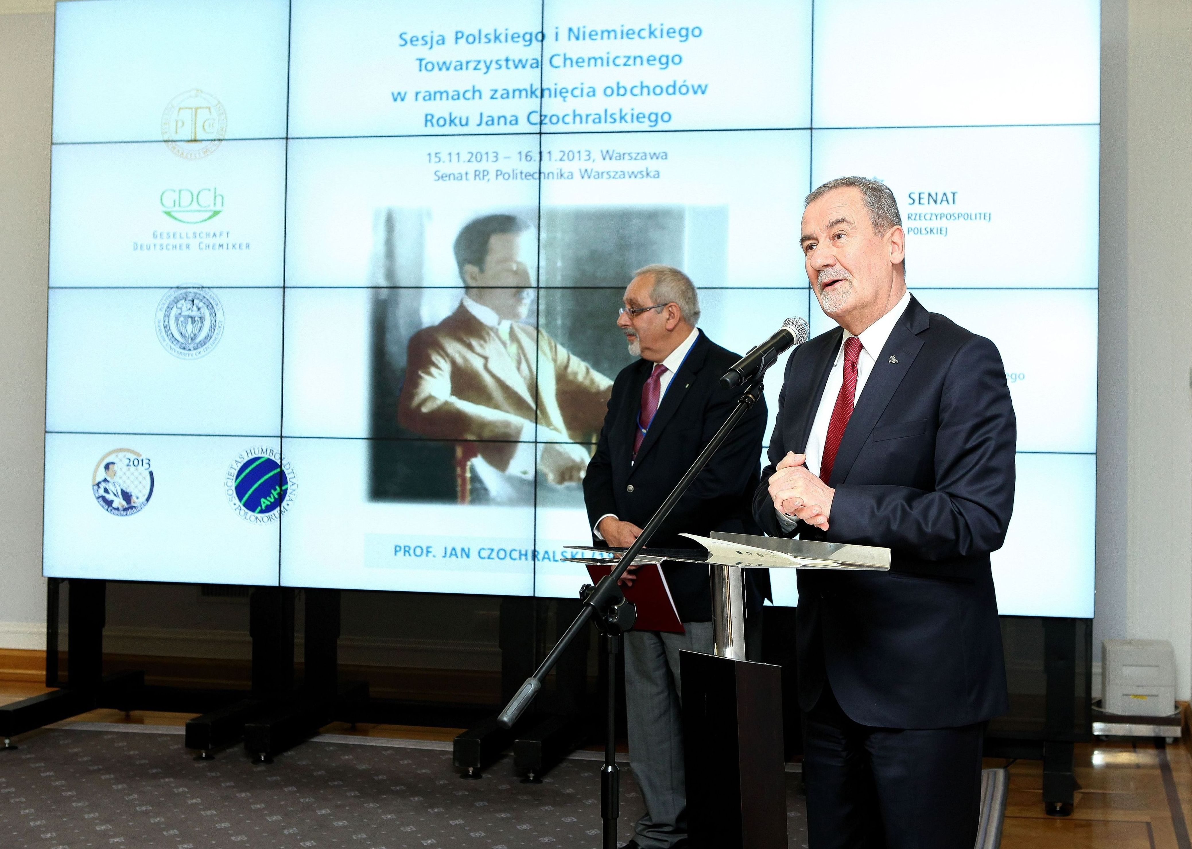 Deputy Marshal Jan Wyrowiński opening a scientific seminar in memory of Jan Czochralski in the Polish Senate